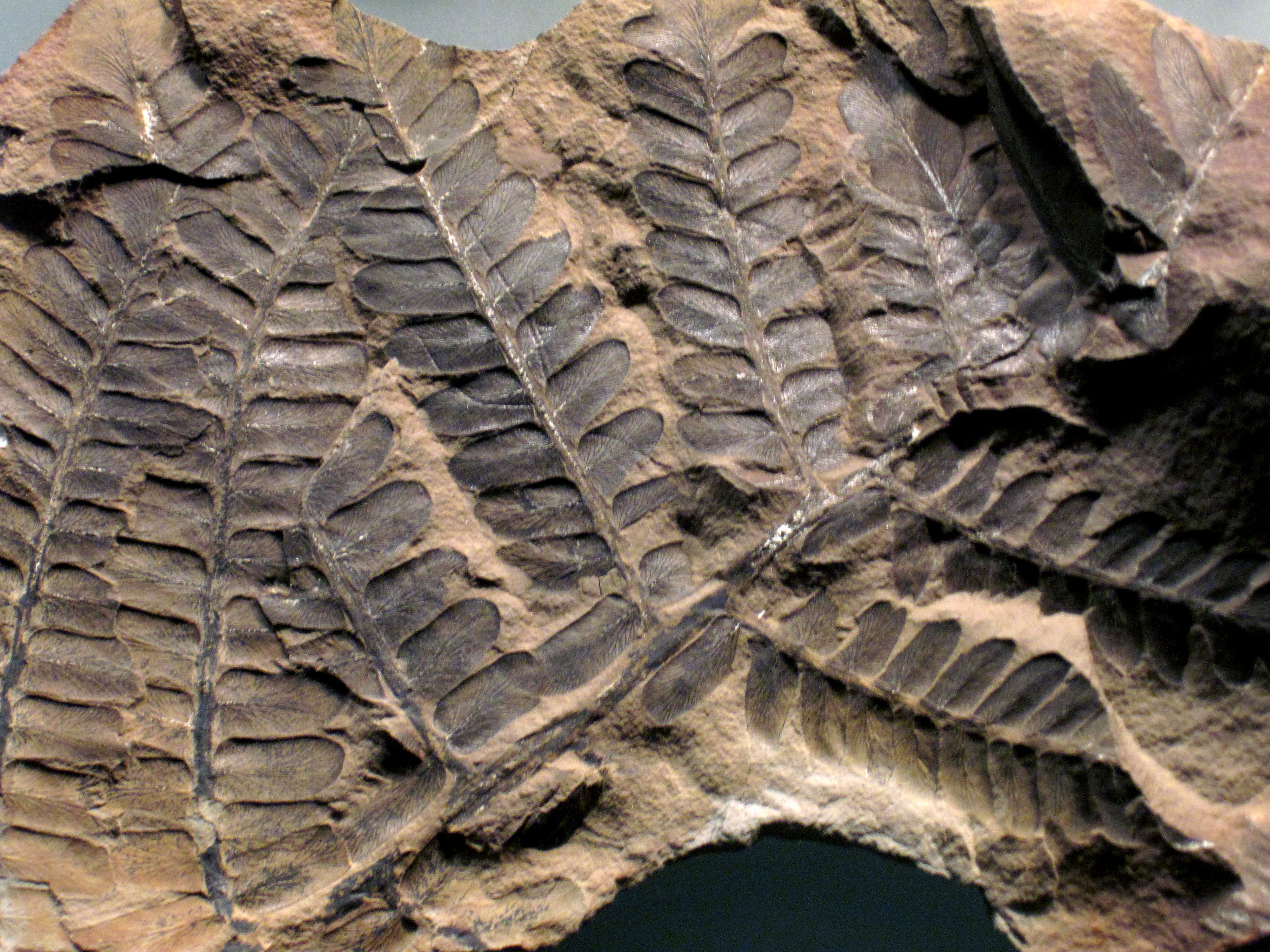 Neuropteris flexuosa Sternberg, 1823 fossil plant from the Pennsylvanian of Illinois, USA (public display, FMNH PF 46204, Field Museum of Natural History, Chicago, Illinois, USA). One of the most remarkable soft-bodied fossil deposits (lagerstätten) on Earth is the Pennsylvanian-aged Mazon Creek Lagerstätte near Chicago, Illinois. In the Mazon Creek area, the Francis Creek Shale consists of concretionary gray shales. The Francis Creek concretions are composed of argillaceous ironstone, and can be fossiliferous or nonfossiliferous. The fossiliferous concretions contain land plants and terrestrial & marine animals, including nonmineralizing organisms. This is Neuropteris flexuosa, a fossil seed fern. Seed ferns are not true ferns. Seed ferns were odd, usually arborescent (tree-like) plants that had woody trunks, large fronds bearing fern-like foliage, and reproduced using seeds (not the spores of true ferns). Classification: Plantae, Pteridospermophyta, Medullosales Stratigraphy: Mazon Creek Lagerstätte, Francis Creek Shale Member, Carbondale Formation, Desmoinesian Stage (= Westphalian D), upper Middle Pennsylvanian Locality: coal mine dump pile near Essex, northern Illinois, USA